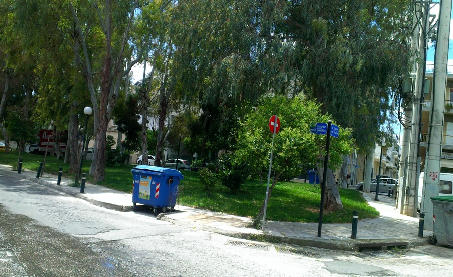 ilion